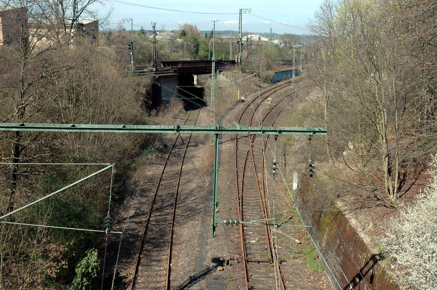 junction of abandoned railway line Freiberg–Bietigheim-Bissingen at station of Bietigheim-Bissingen. The tracks have been used for shunting purposes in the last years.